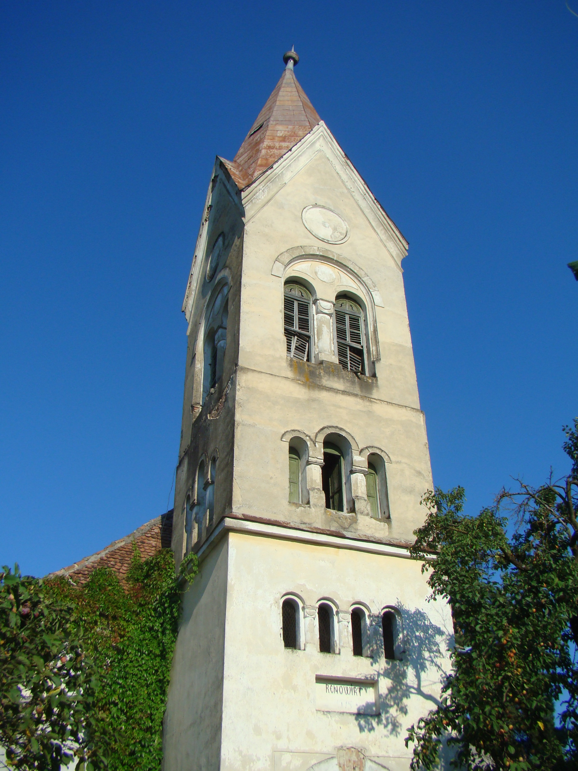 Lutheran church in Posmuș, Bistrița-Năsăud county, Romania